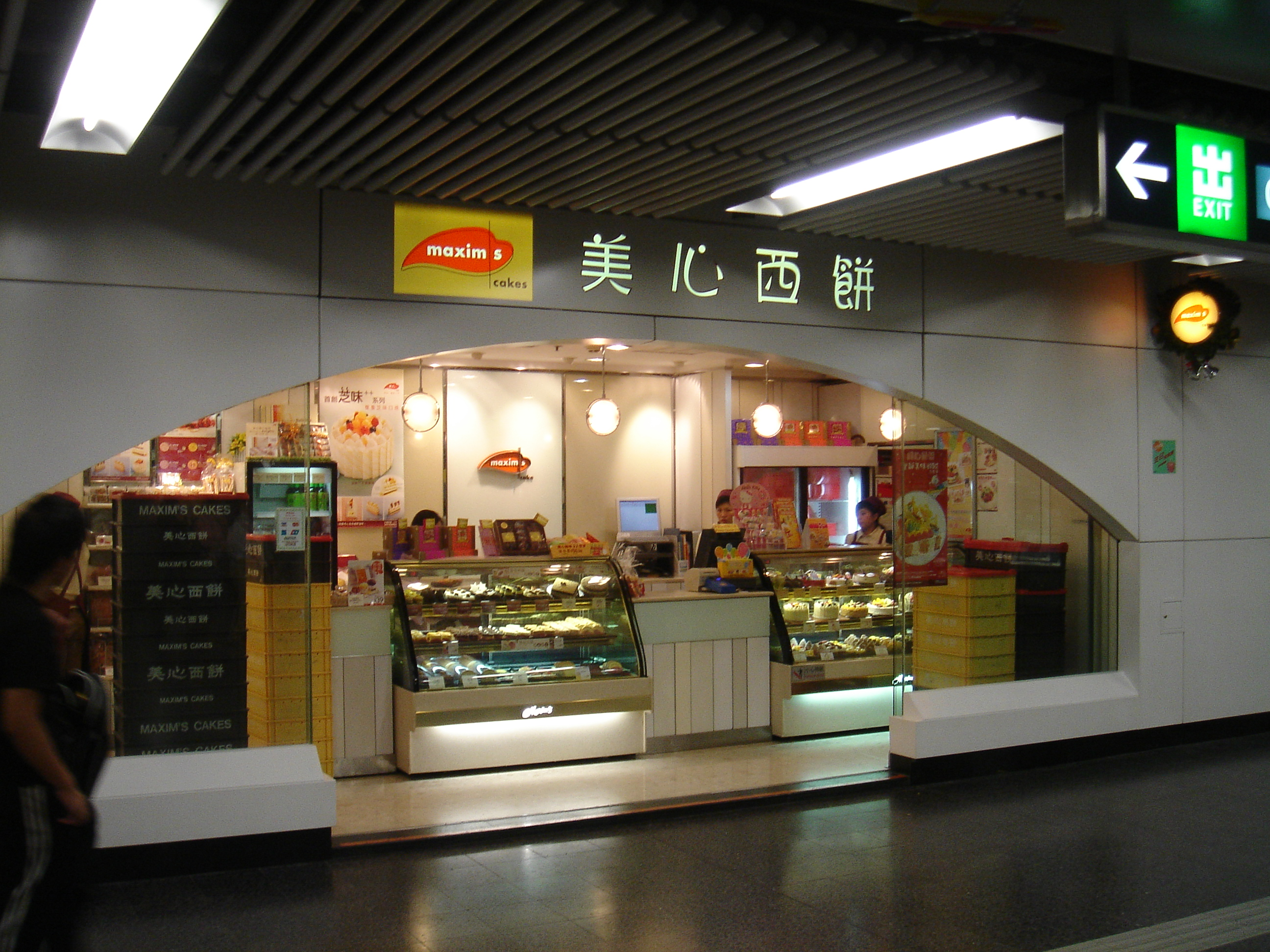 Maxim's Cakes, MTR Shops, at Tsim Sha Tsui.